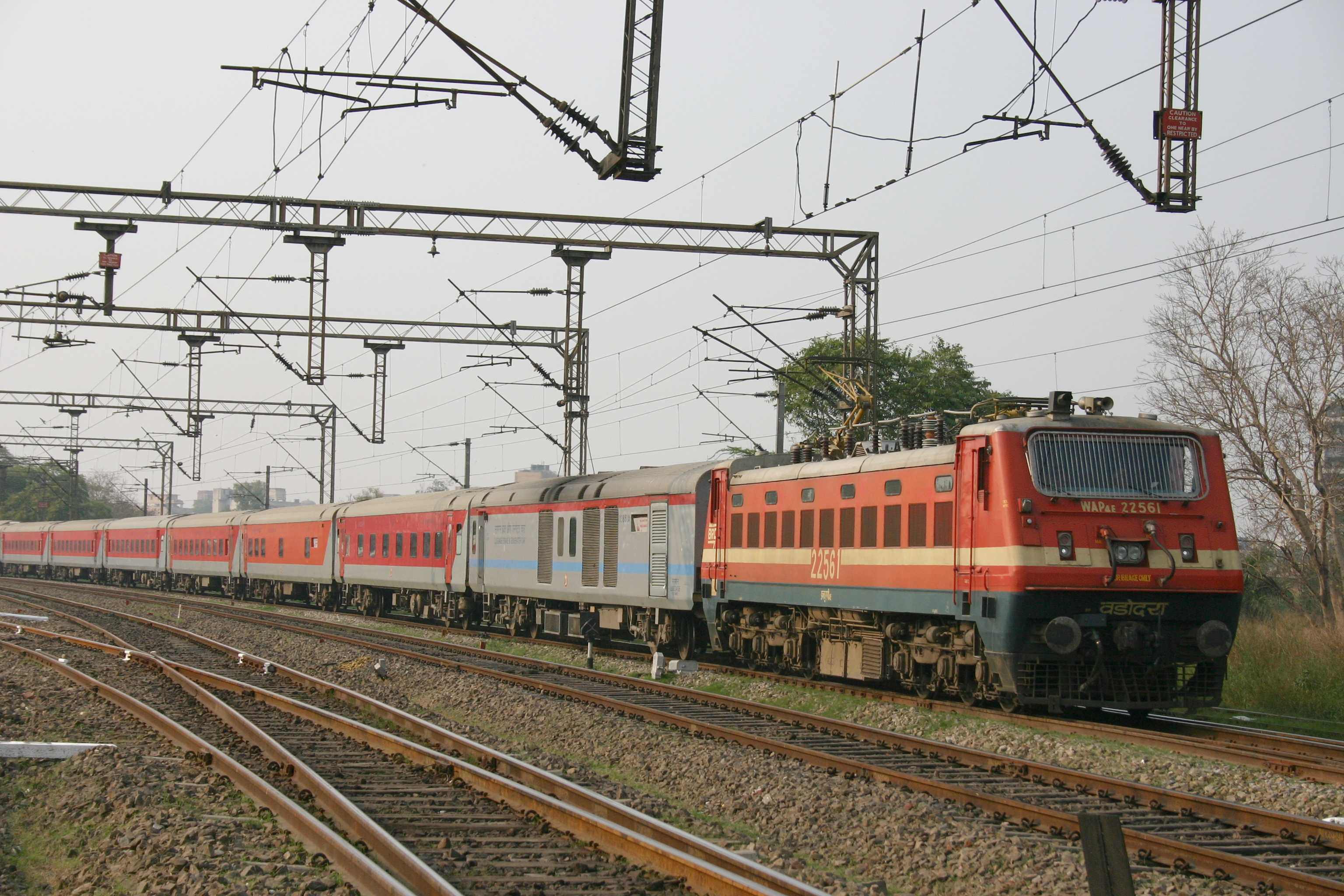 Rajdhani Express on run with Alstom LHB coaches manufactured by Rail Coach Factory.